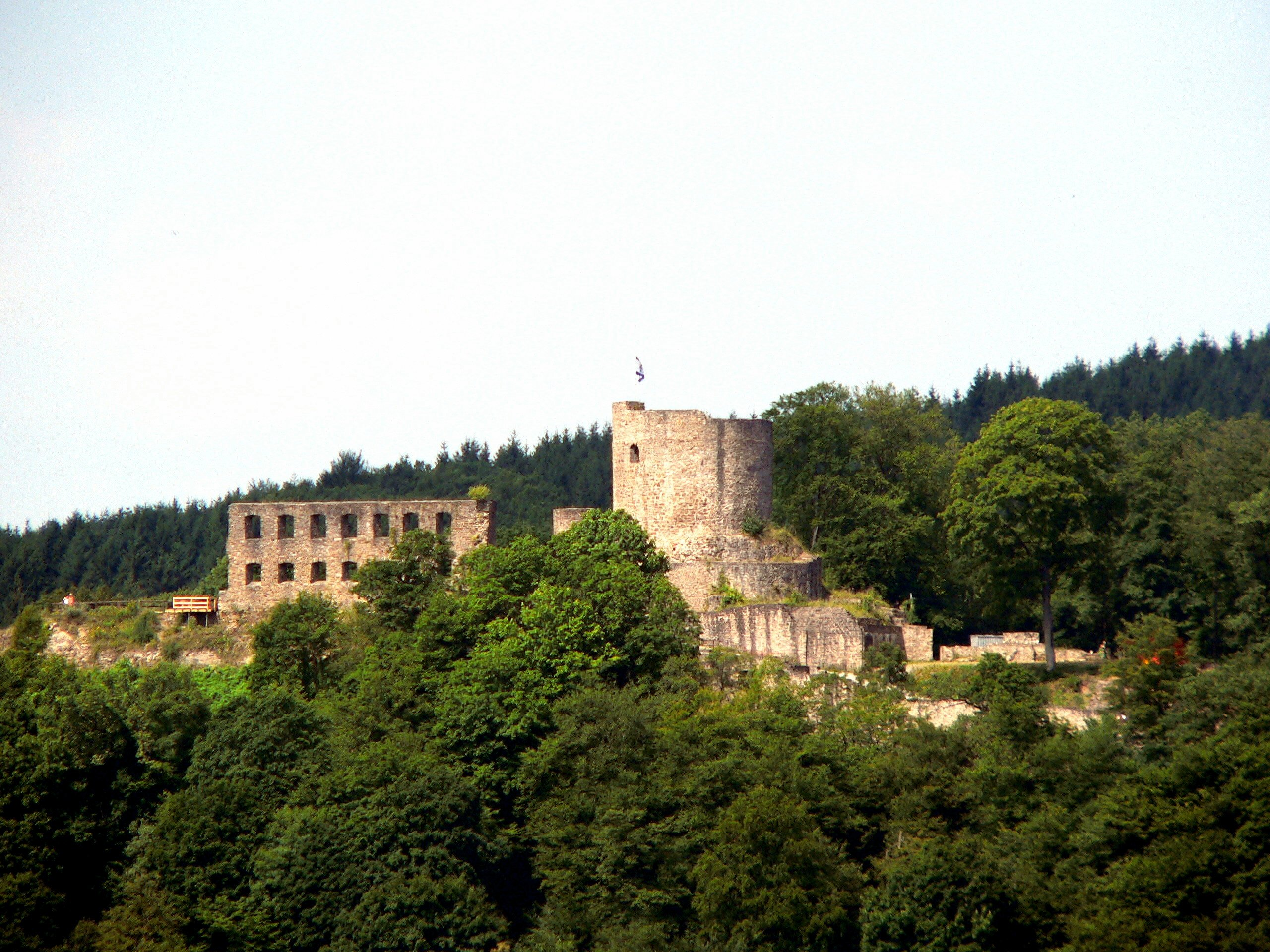 Ruine of Castle Windeck/Sieg, view from the cemetery of Schladern